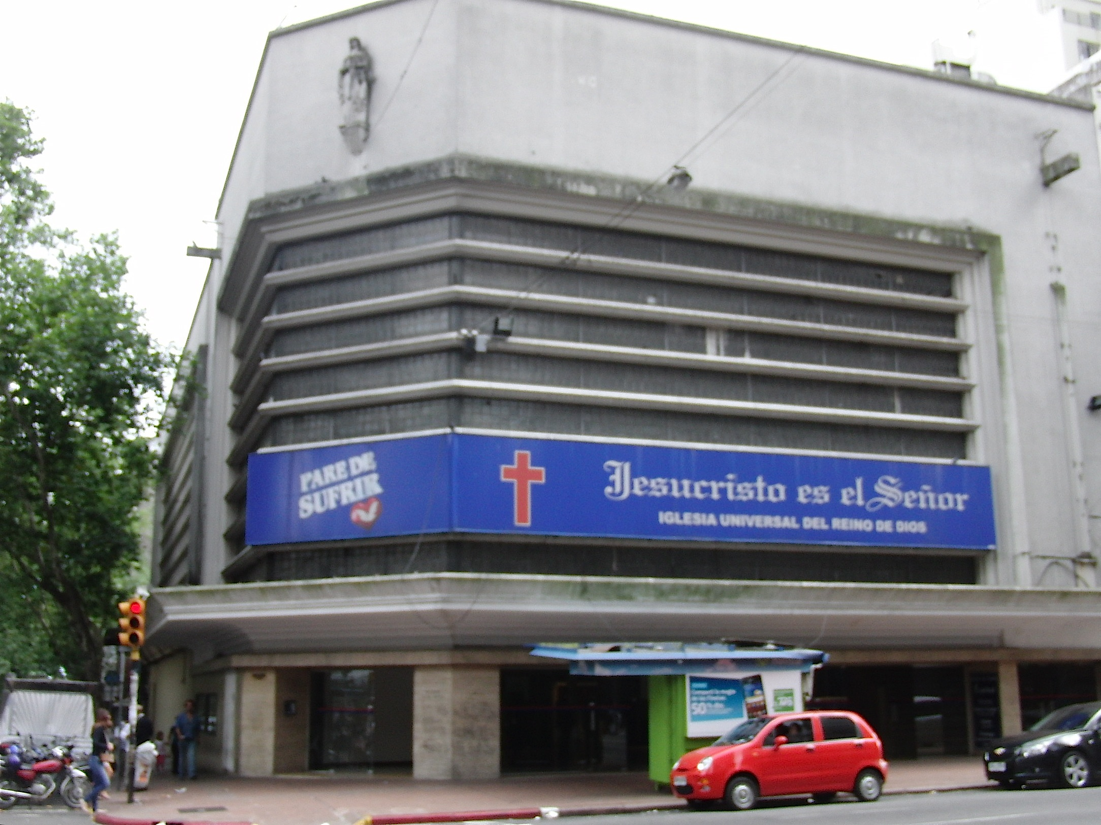 Former Cine Trocadero in Montevideo, today a pentacostal church